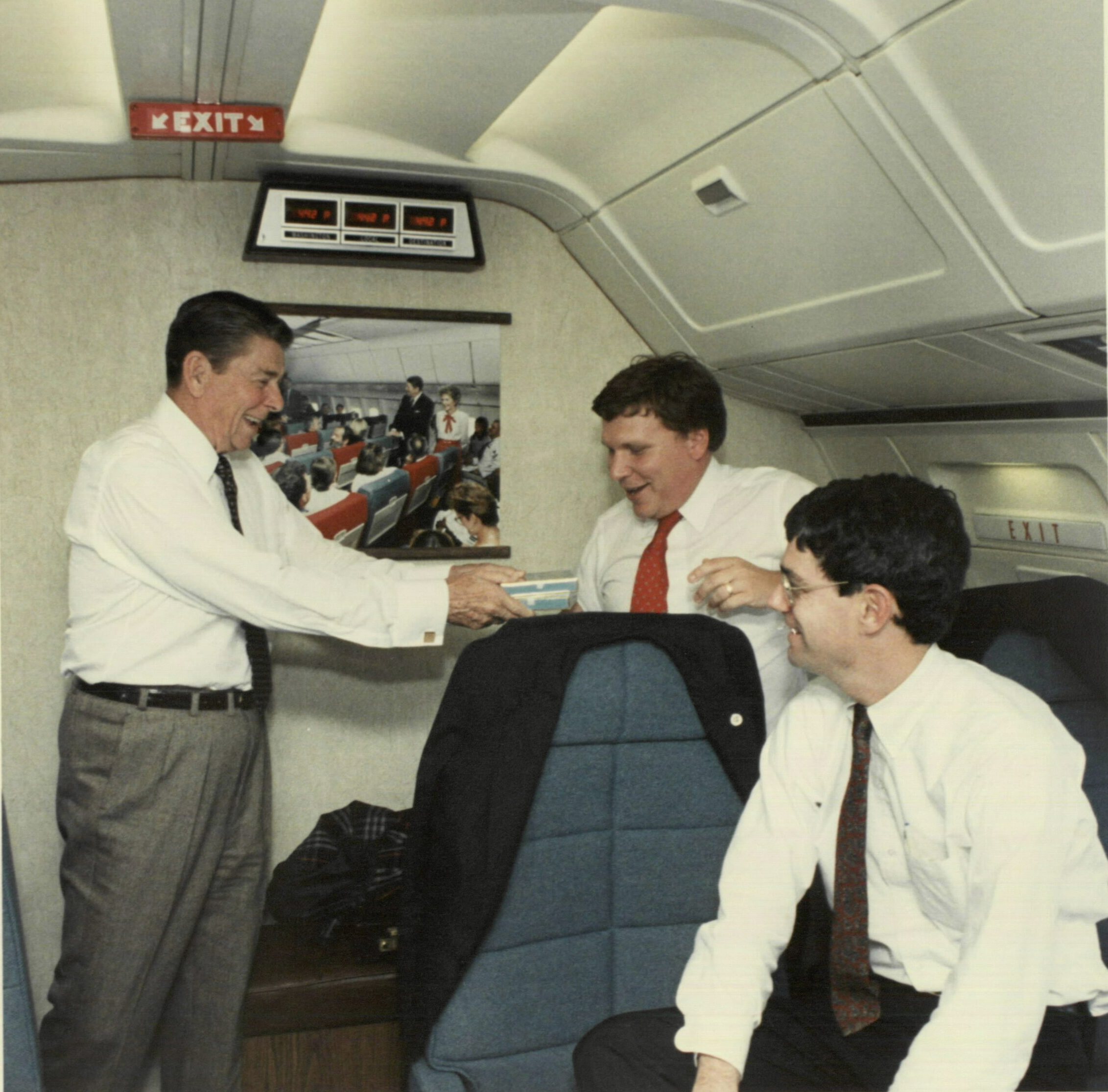 Martin and Reagan on AF1